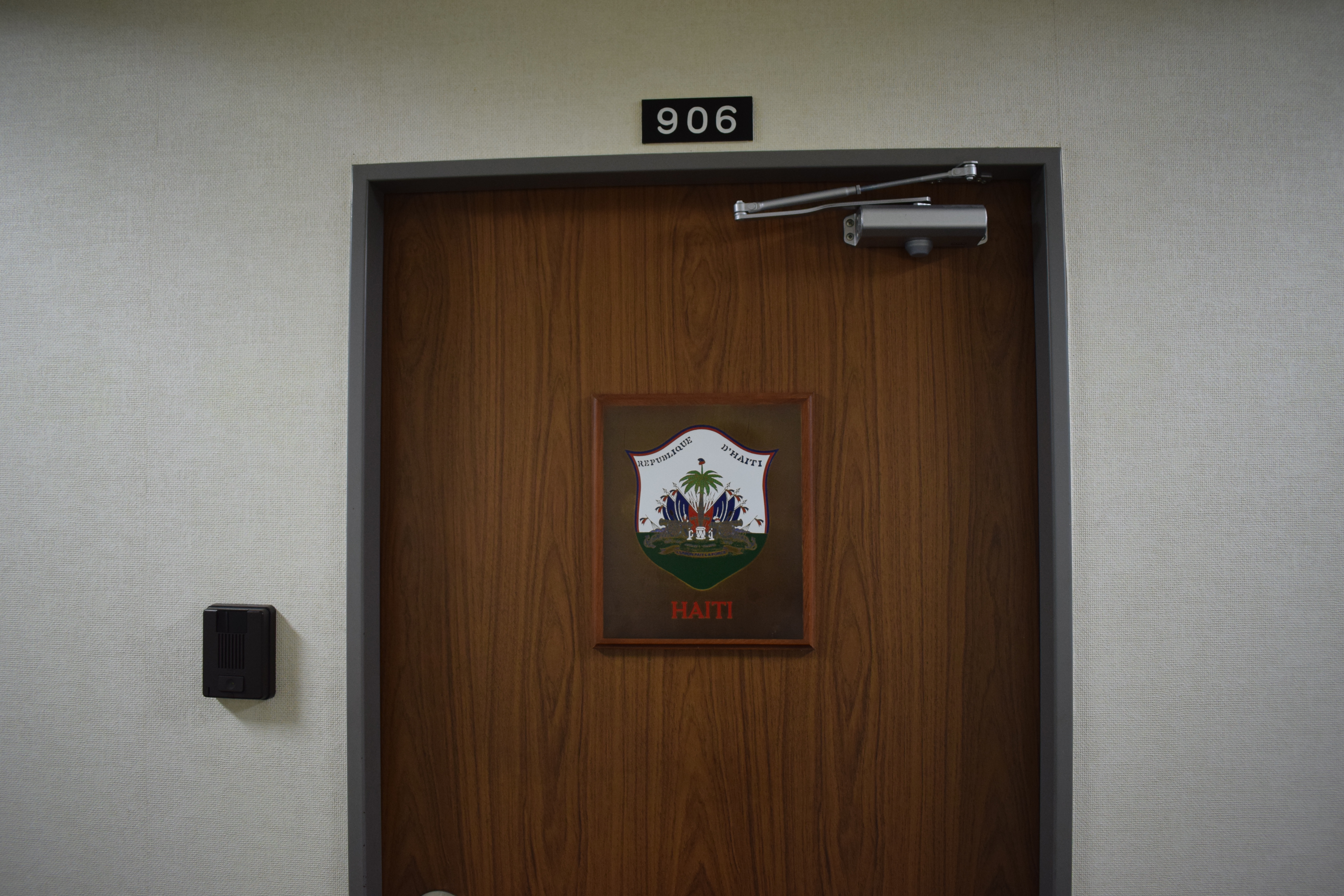 Embassy of Haiti in Tokyo, Japan